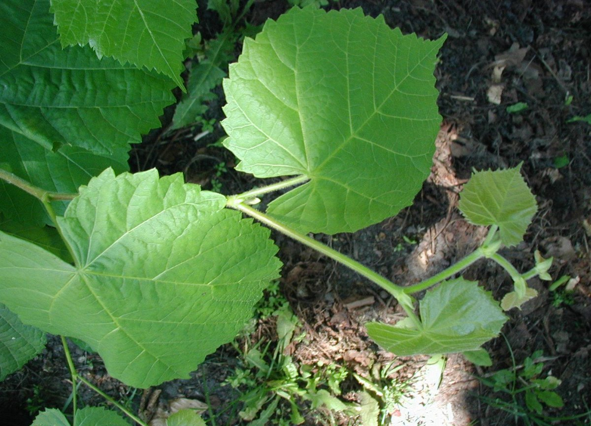 Description: Tilia platyphyllos, leaves. Source: Own photo, taken in Jutland, Jun 2002. Author: Sten Porse